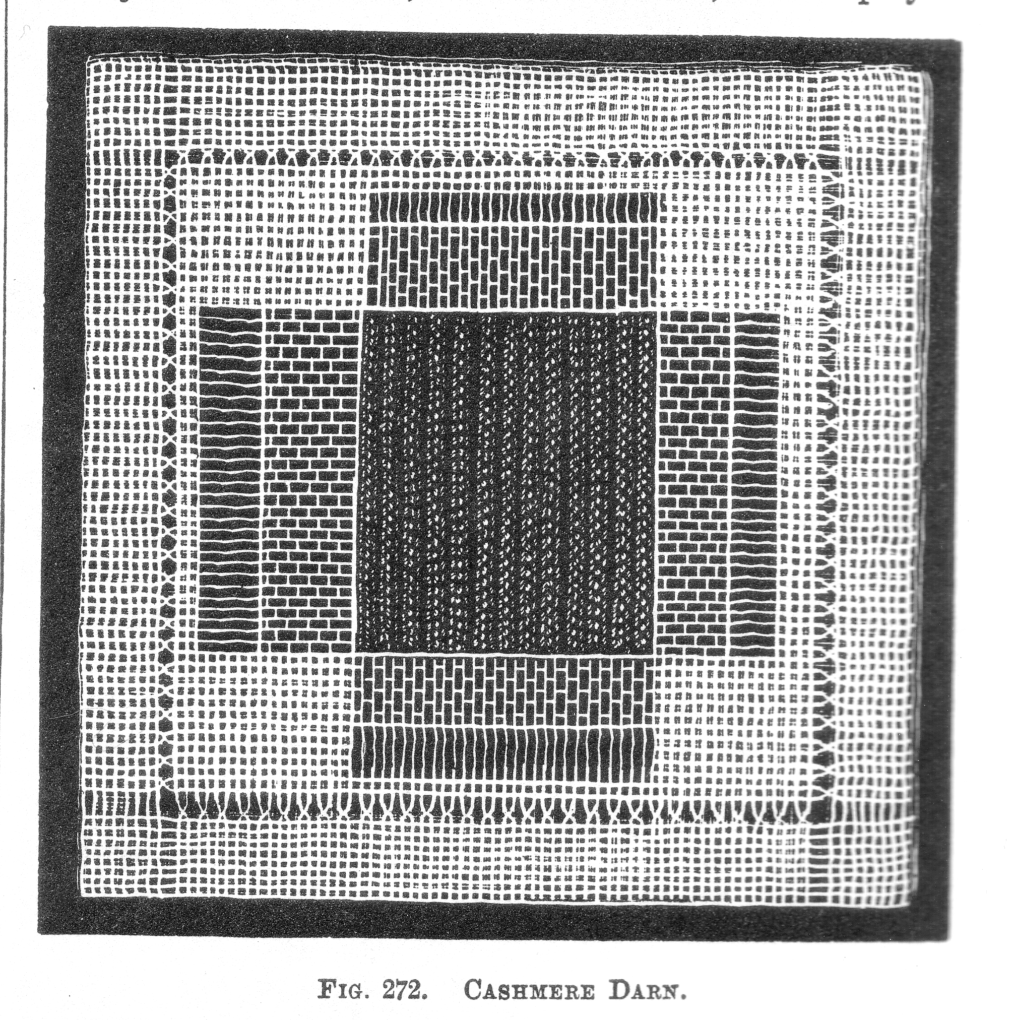 Illustration of cashmere darning for twill fabrics.